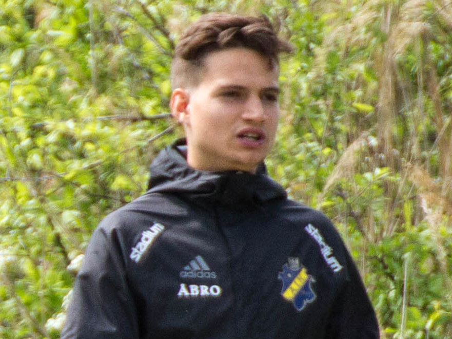 Amin Affane, AIK player, in May 2016.